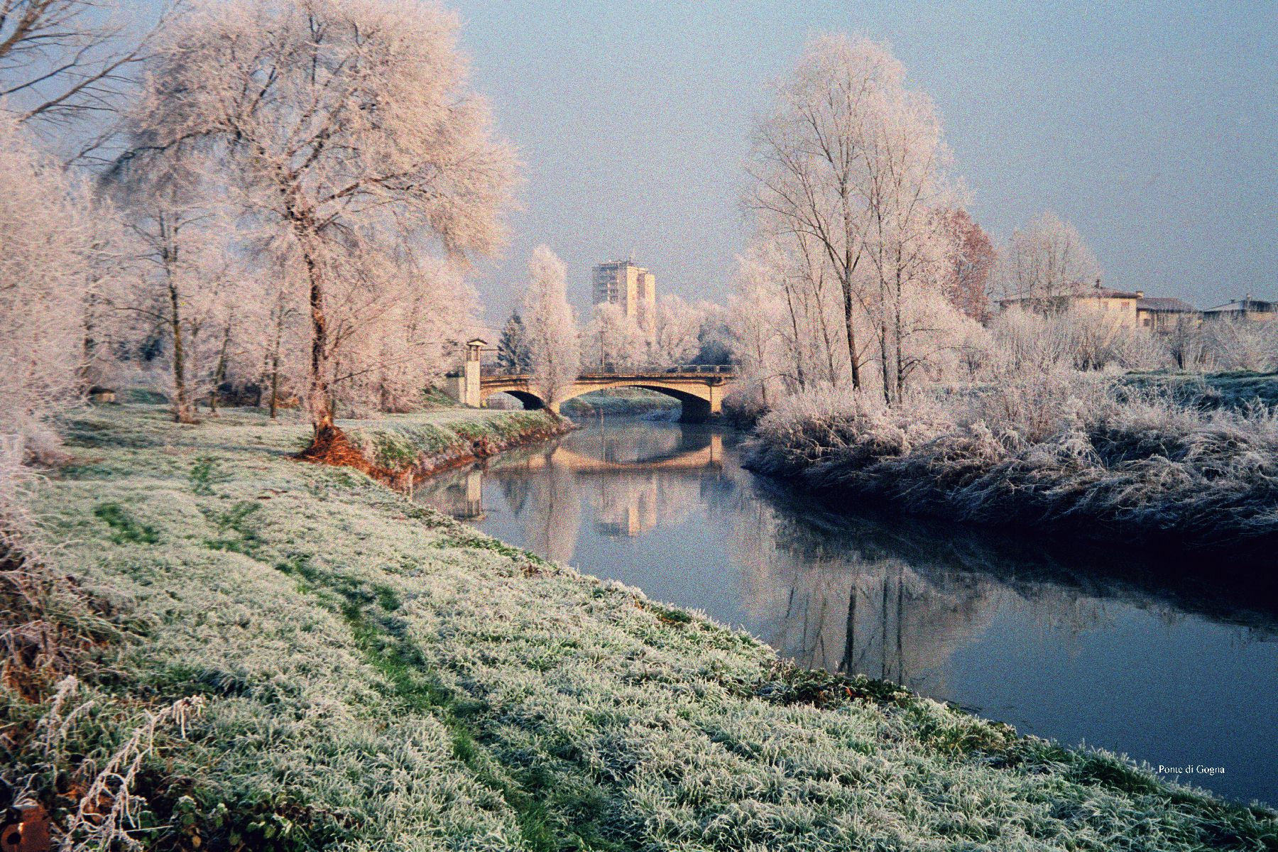 Winter at Retrone Park in Vicenza